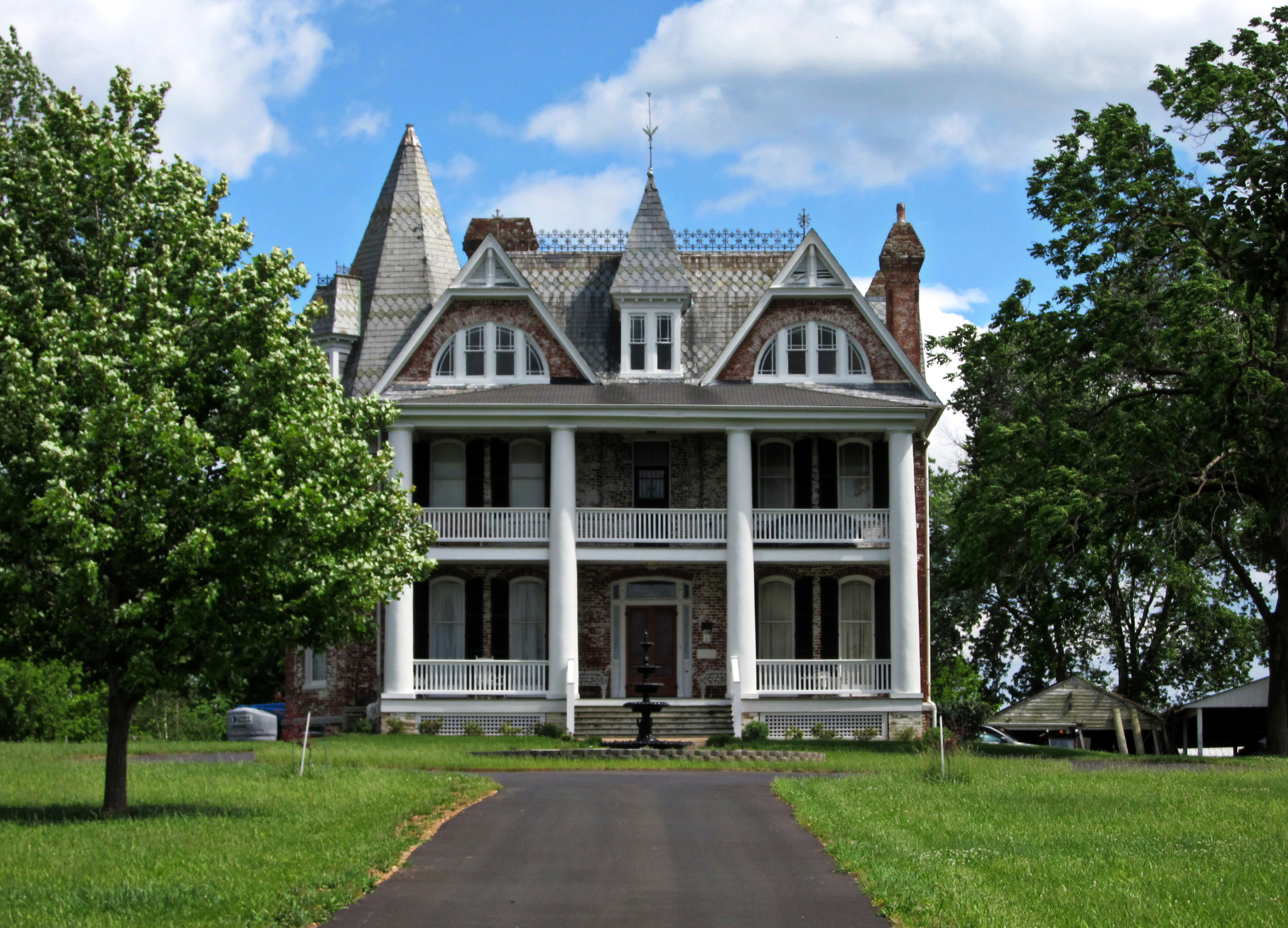 Monte Vista is a home located at 8100 US 11 near Middletown, Virginia. Built in 1883, the Eastlake and Queen Anne style home was listed on the National Register of Historic Places in 1987.